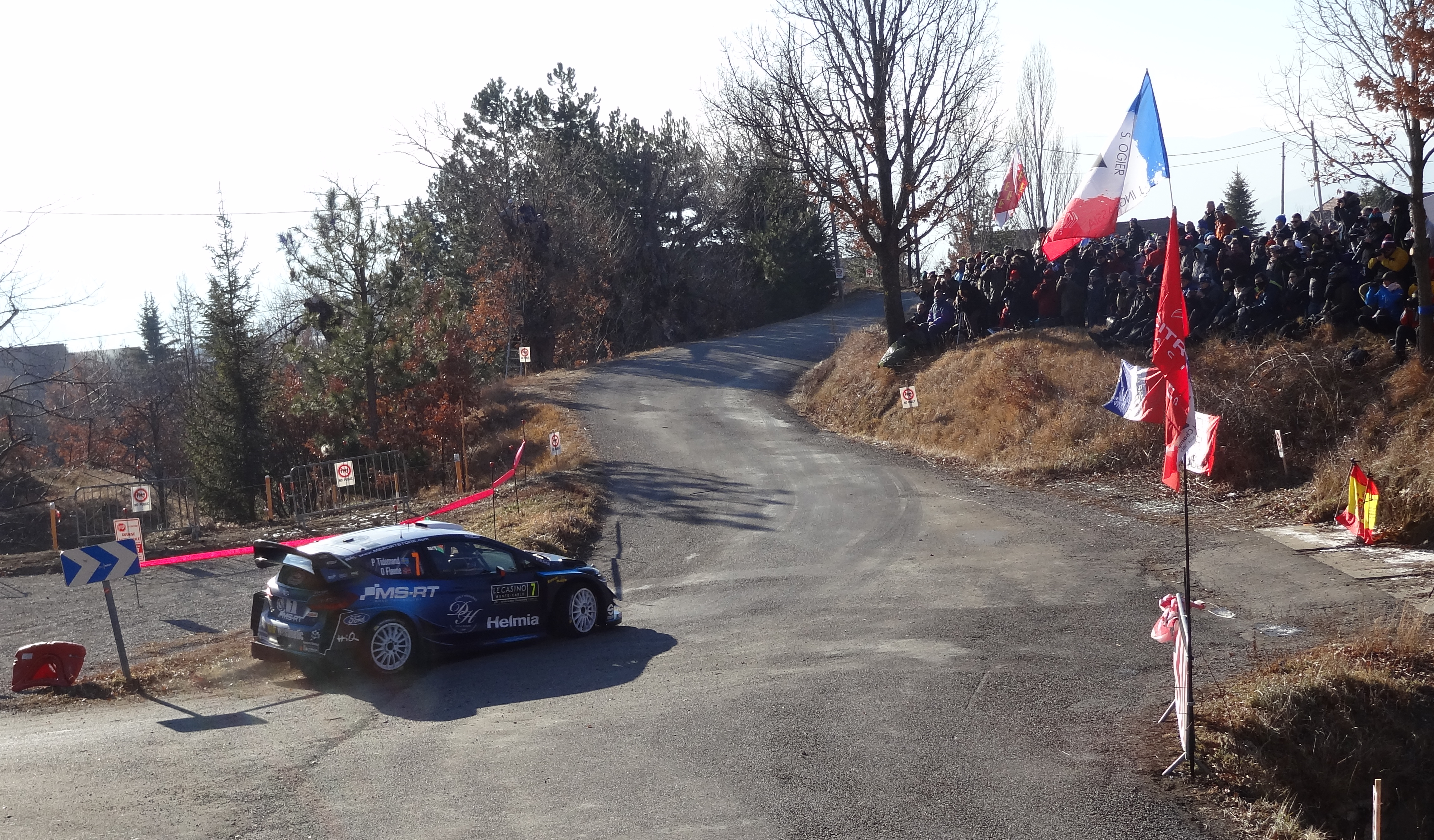 Ford Fiesta WRC de Pontus Tidemand au Rallye Monte-Carlo 2019.